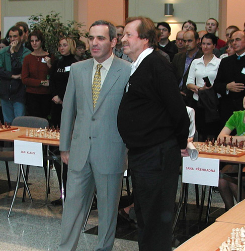 Garry Kasparov